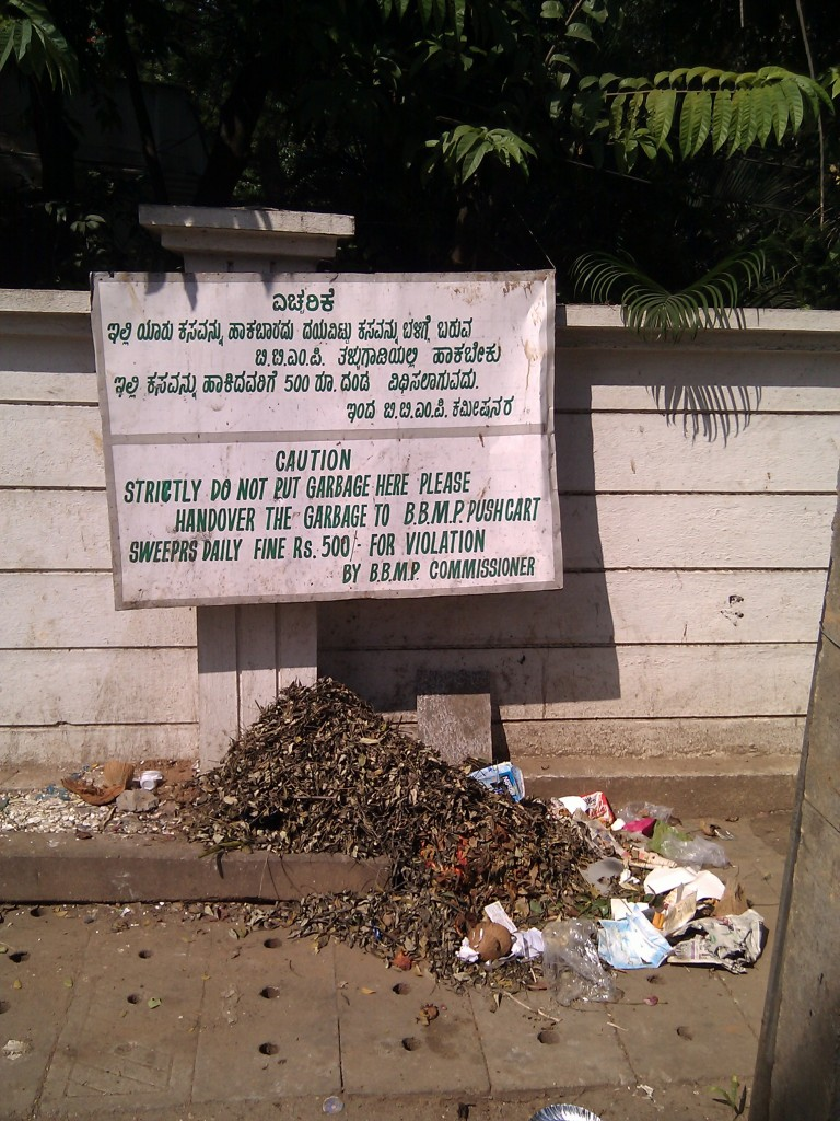 Bangalore trash problem